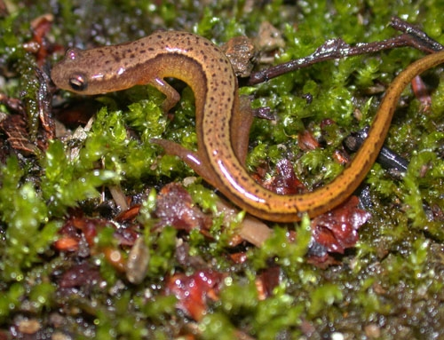 A Blue Ridge two-lined salamander (Eurycea bislineata wilderae) in Watauga County, North Carolina